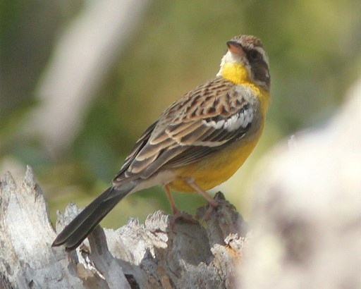 Cabanis's bunting at Menongue in central Angola